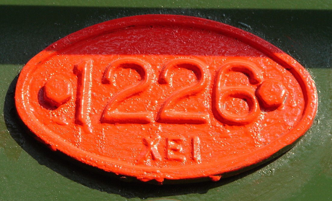 Type XE1 tender number plate of a tender which entered service with Class 8D no. 1226. The tender is now plinthed as tender to Ex Cape Government Railways Class 6 no. 356, ex Oranje-Vrijstaat Gouwermentspoorwegen Class 6 no. 61, ex Central South African Railways Class 6-L1 no. 337 and finally South African Railways Class 6 no. 432, at Union Carriage and Wagon in Nigel, Gauteng